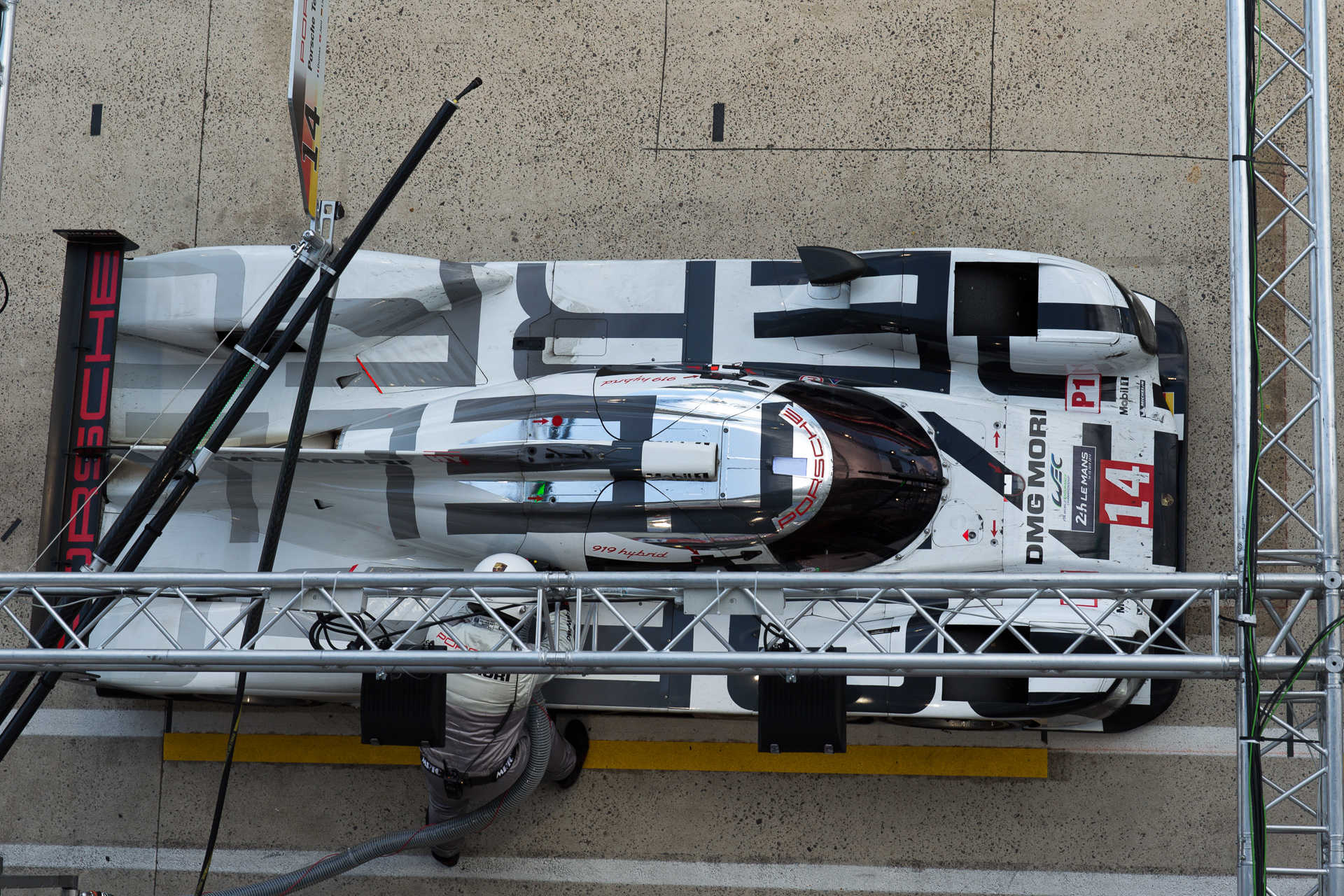 The No. 14 Porsche 919 Hybrid refueling during a pit stop at the 2014 24 Hours of Le Mans